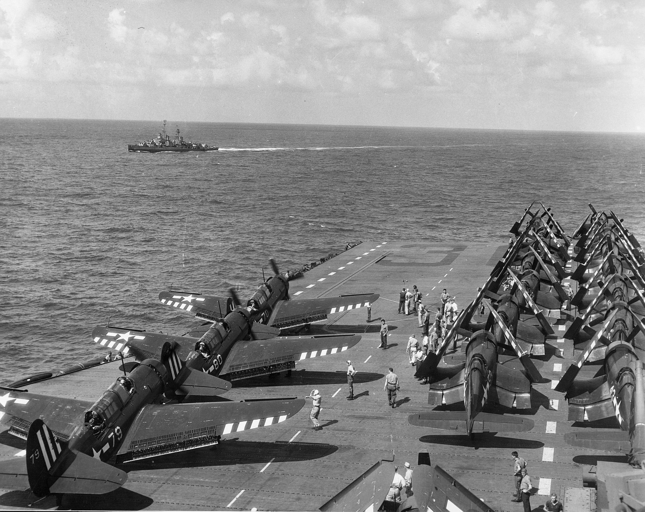 U.S. Navy Curtiss SB2C-5 Helldiver dive bombers of bombing squadron VB-89 are lined up for launch on the flight deck of the aircraft carrier USS Antietam (CV-36), 1945. Joining the Pacific Fleet too late for service in the Second World War, the carrier operated in the Far East during the period September 1945-August 1946. Vought F4U Corsairs of fighter squadron VF-89 are spotted on the starboard side of the flight deck while the Helldivers launch from the port side. Note the geometric air group identification symbol on Antietam´s aircraft (white stripes), officially in use from January to July 1945. A Gearing-class destroyer wearing measure 22 camouflage and carrying an SP radar aft is visible in the background. It is probably USS Highbee (DD-806), which accompanied Antietam to the Pacific.